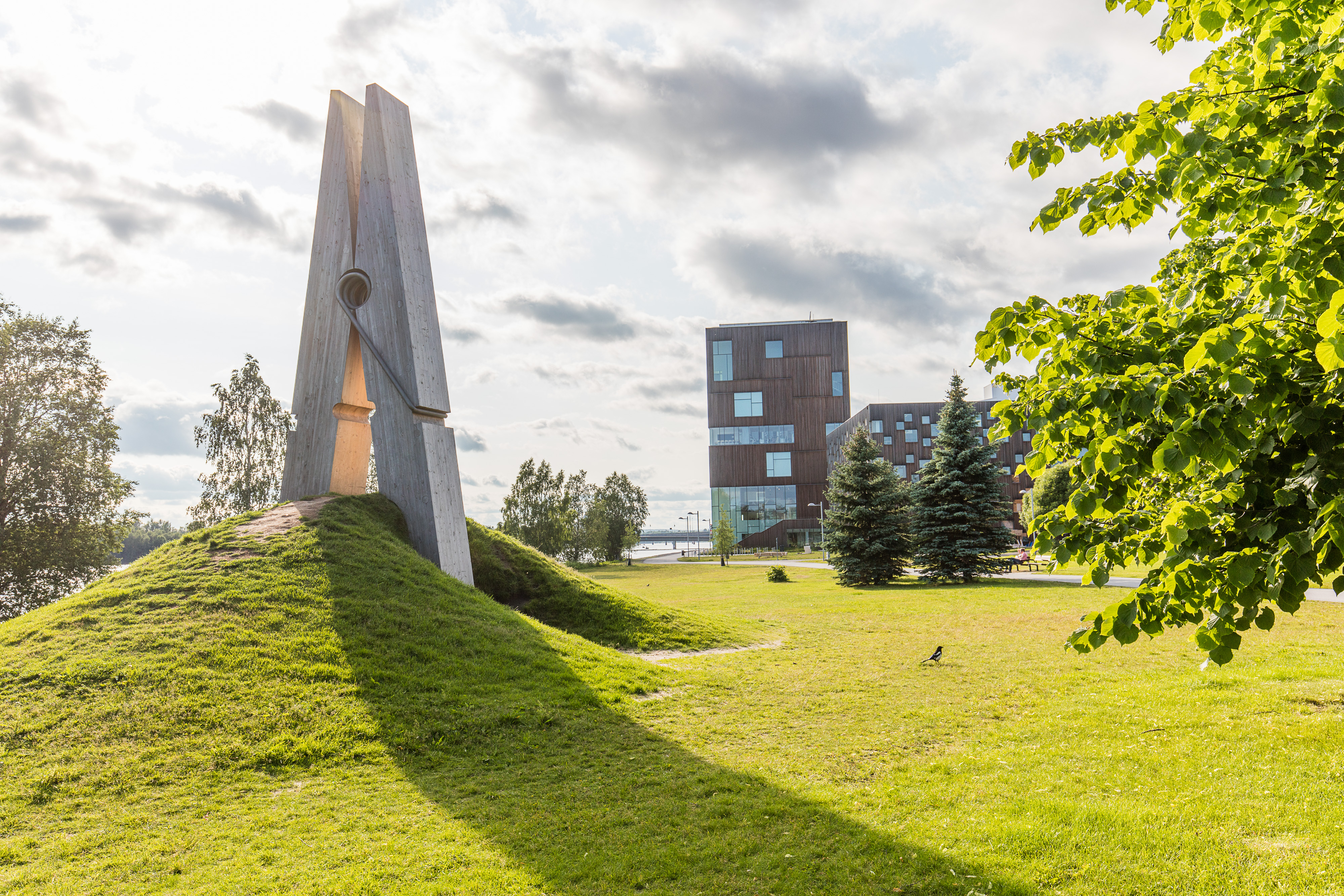 The sculpture "Skin 4" by Mehmet Ali Uysal in Öbackaparken, next Umeå Arts Campus – with Bildmuseet (the Museum of Contemporary Art) in the background